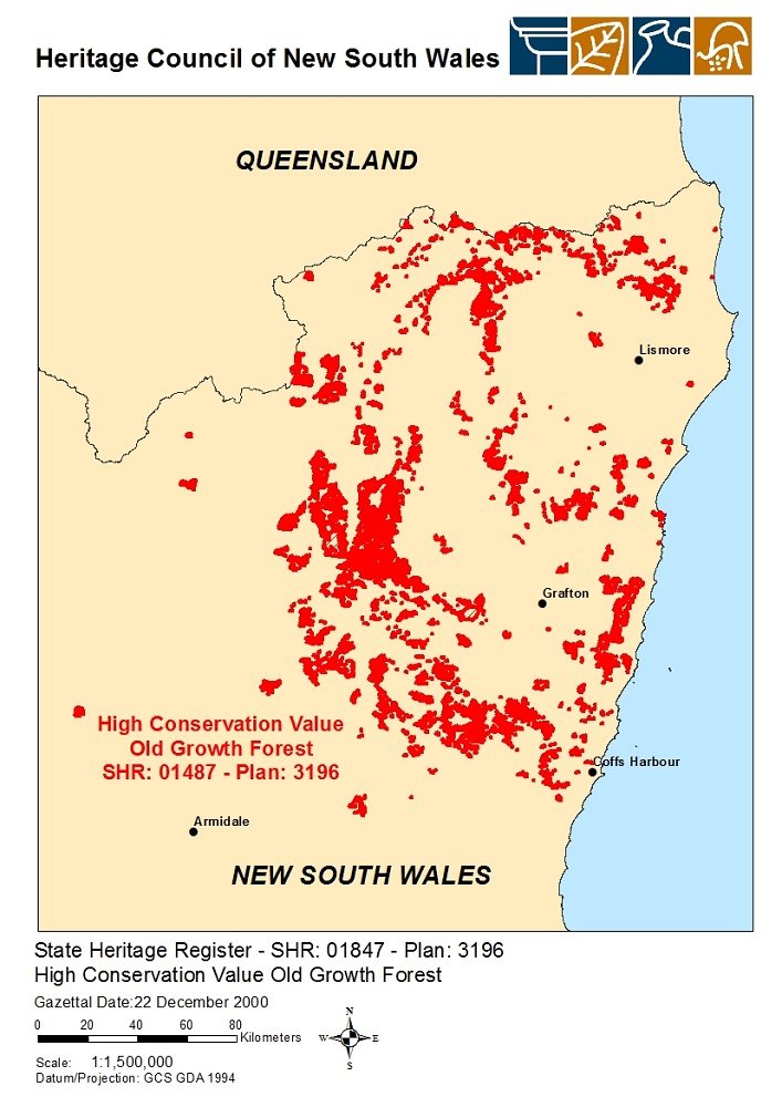 High Conservation Value Old Growth forest: SHR Plan 2473